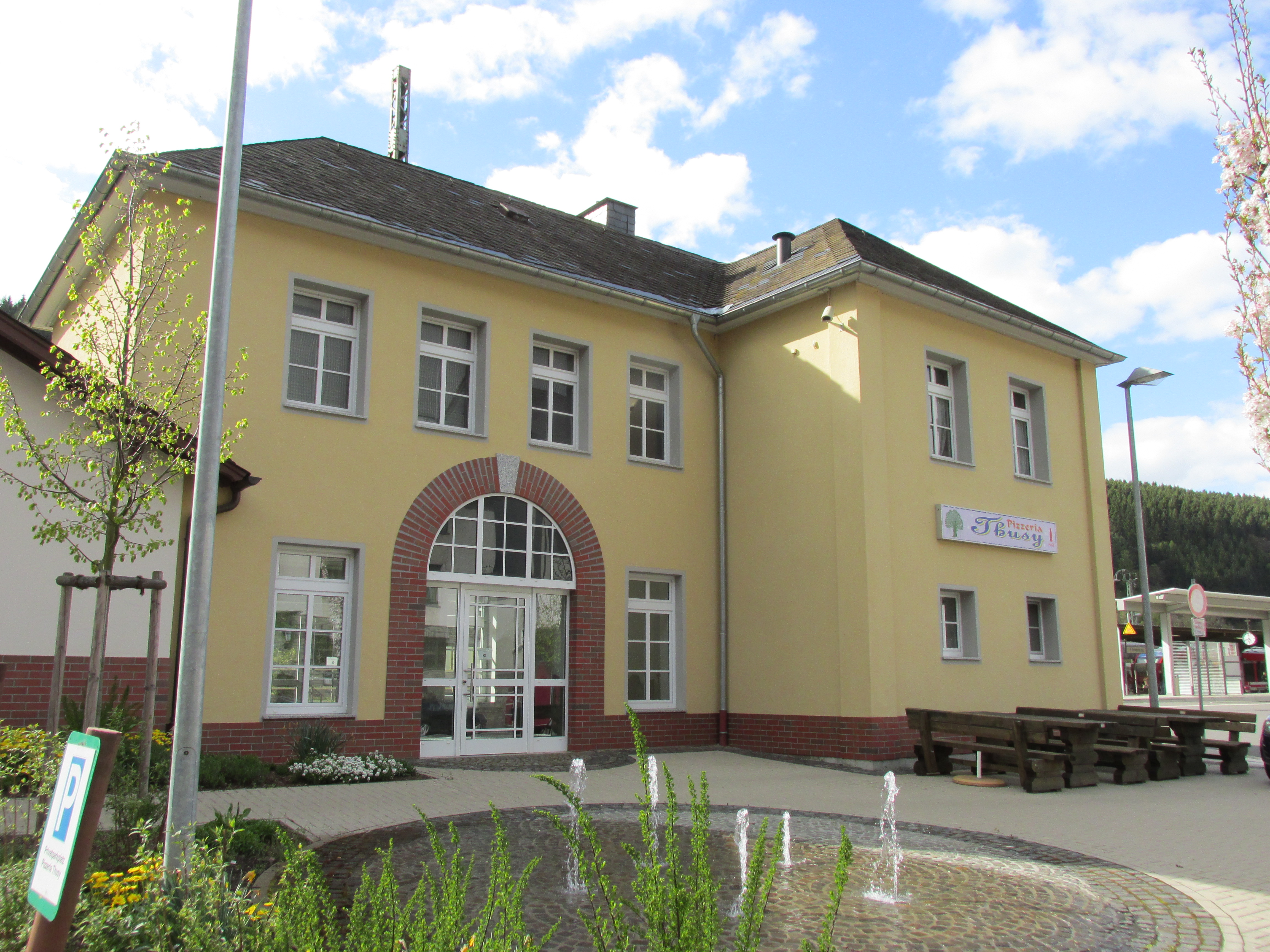 Train staion (new building), Finnentrop, Germany check usage